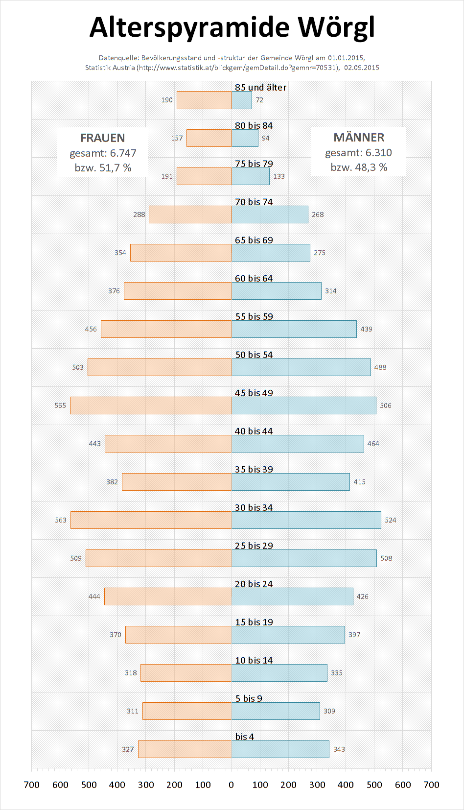 The age pyramid of Wörgl (Tyrol, Austria), based on the population census on 2015-01-01.